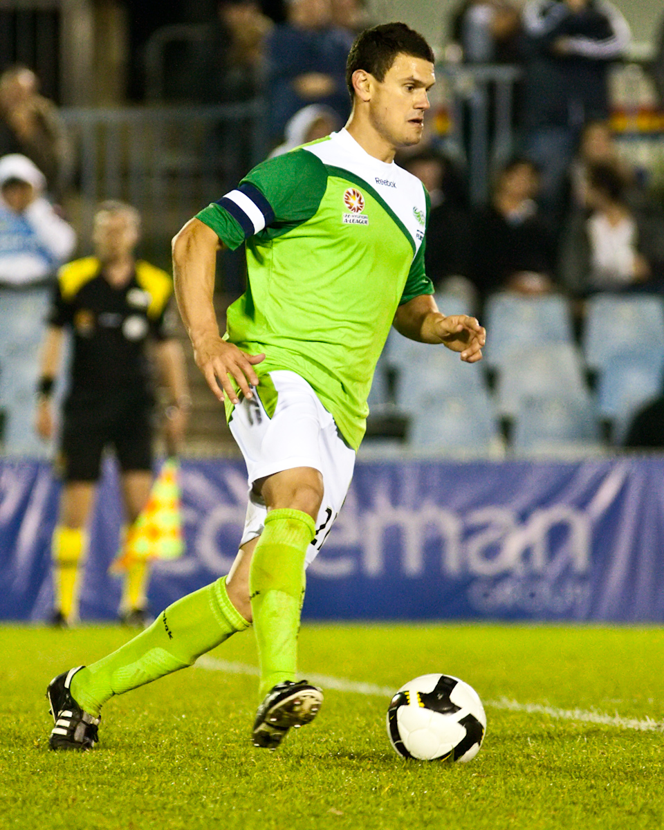 John Tambouras playing in a pre-season match for the North Queensland Fury against Sydney FC.